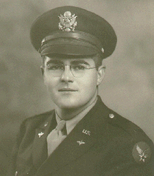 Robert C. Miller, US Meteorologist participated in the firts successfull forecast of a tornado in 1948.